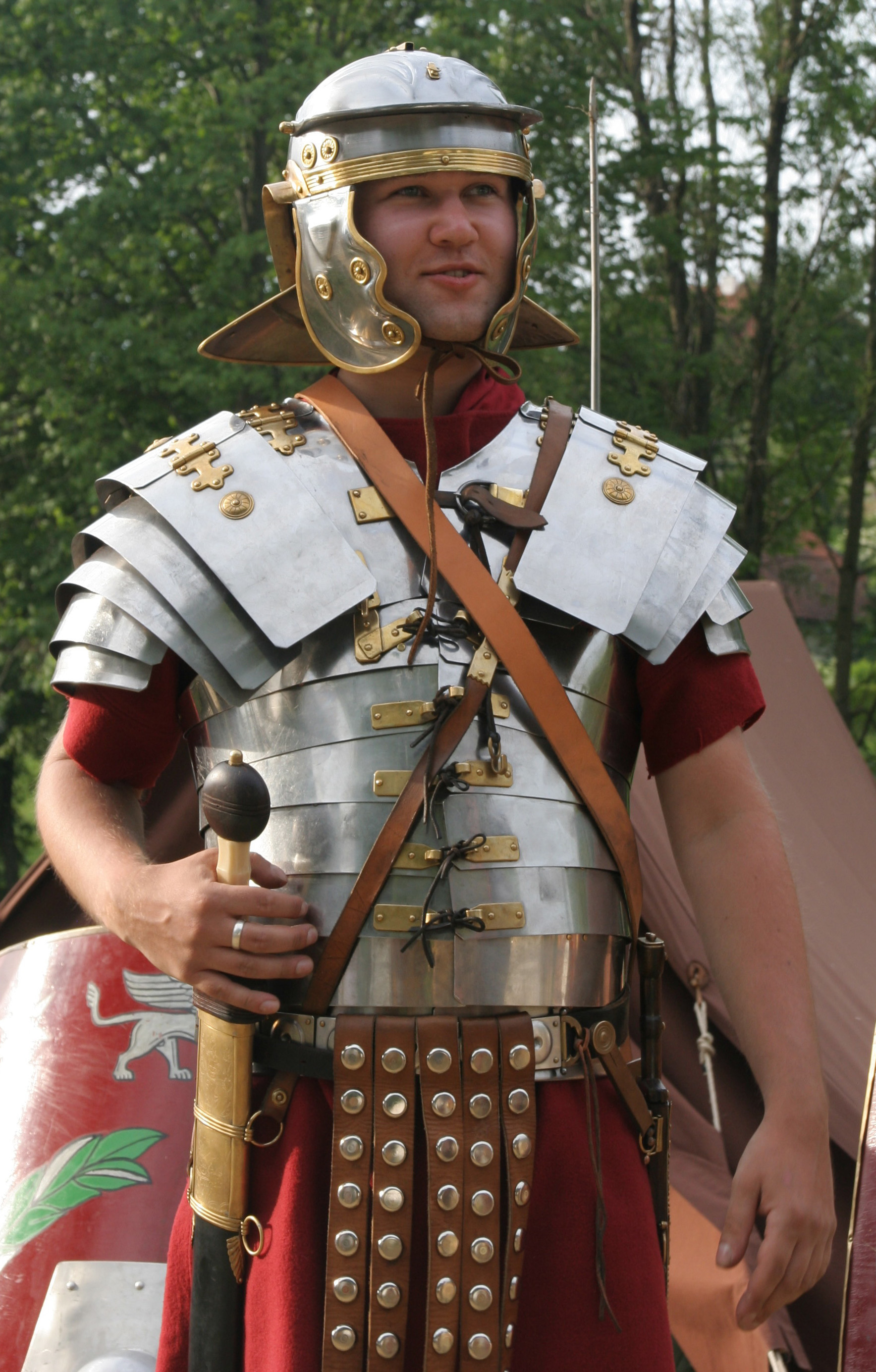 Roman soldier in lorica segmentata Photographed by myself during a show of Legio XV from Pram, Austria